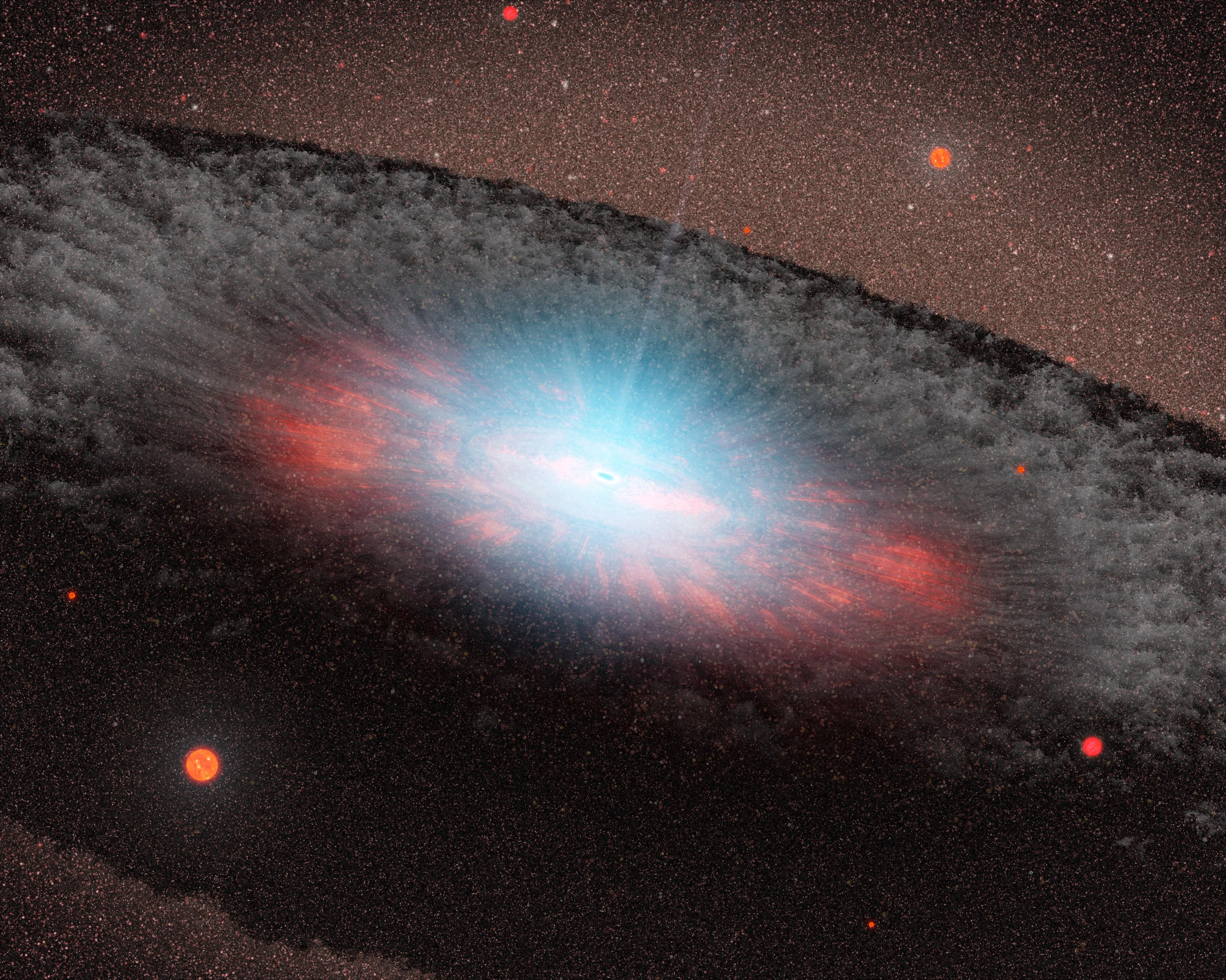 This artist's concept depicts a supermassive black hole at the center of a galaxy. NASA's Galaxy Evolution Explorer found evidence that black holes -- once they grow to a critical size -- stifle the formation of new stars in elliptical galaxies. Black holes are thought to do this by heating up and blasting away the gas that fuels star formation. The blue color here represents radiation pouring out from material very close to the black hole. The grayish structure surrounding the black hole, called a torus, is made up of gas and dust. Beyond the torus, only the old red-colored stars that make up the galaxy can be seen. There are no new stars in the galaxy.